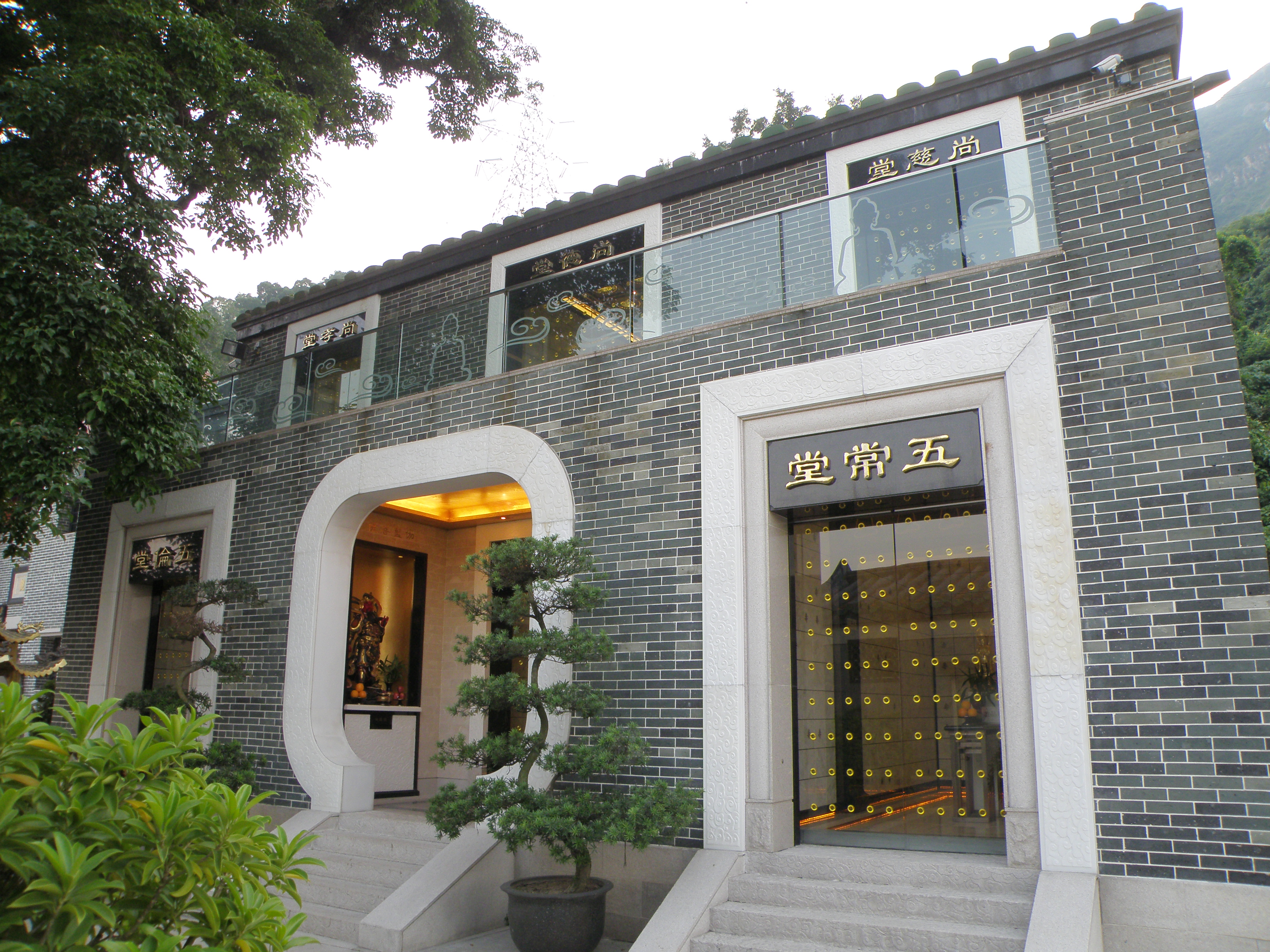 Tsing Wan Kwun in Tuen Mun, Hong Kong.